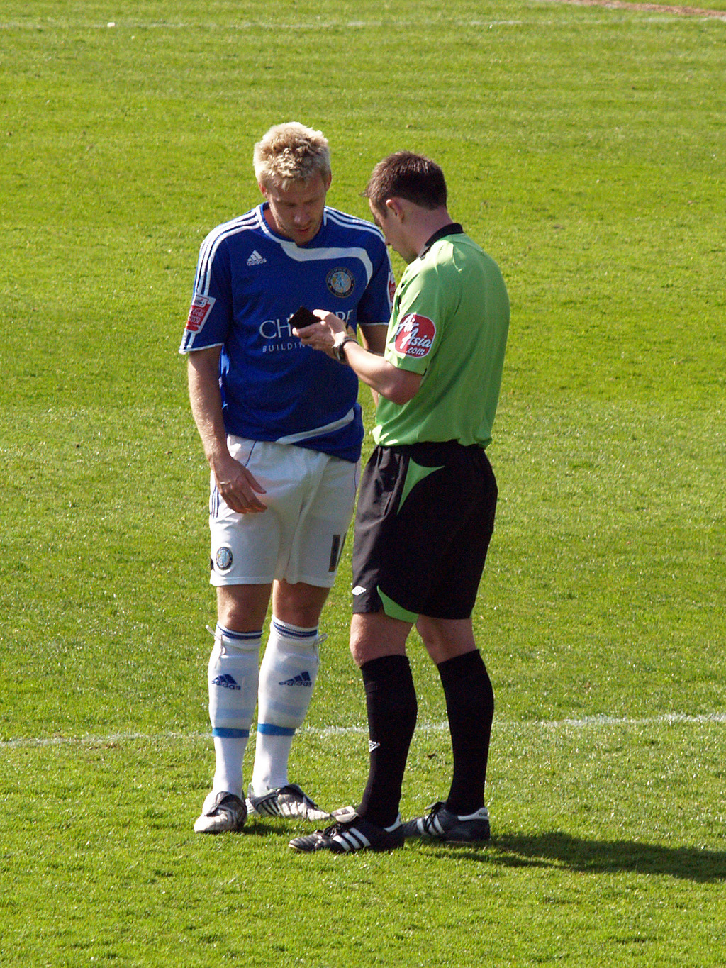 Macclesfield Town FC midfielder Jamie Tolley is booked by referee Stuart Attwell during the Bury vs. Macclesfield Town game at Gigg Lane, home of Bury Football Club. Saturday 18th April 2009